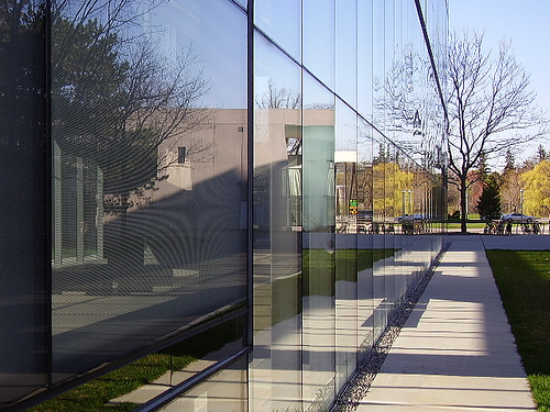 CCT building on University of Toronto Mississauga campus